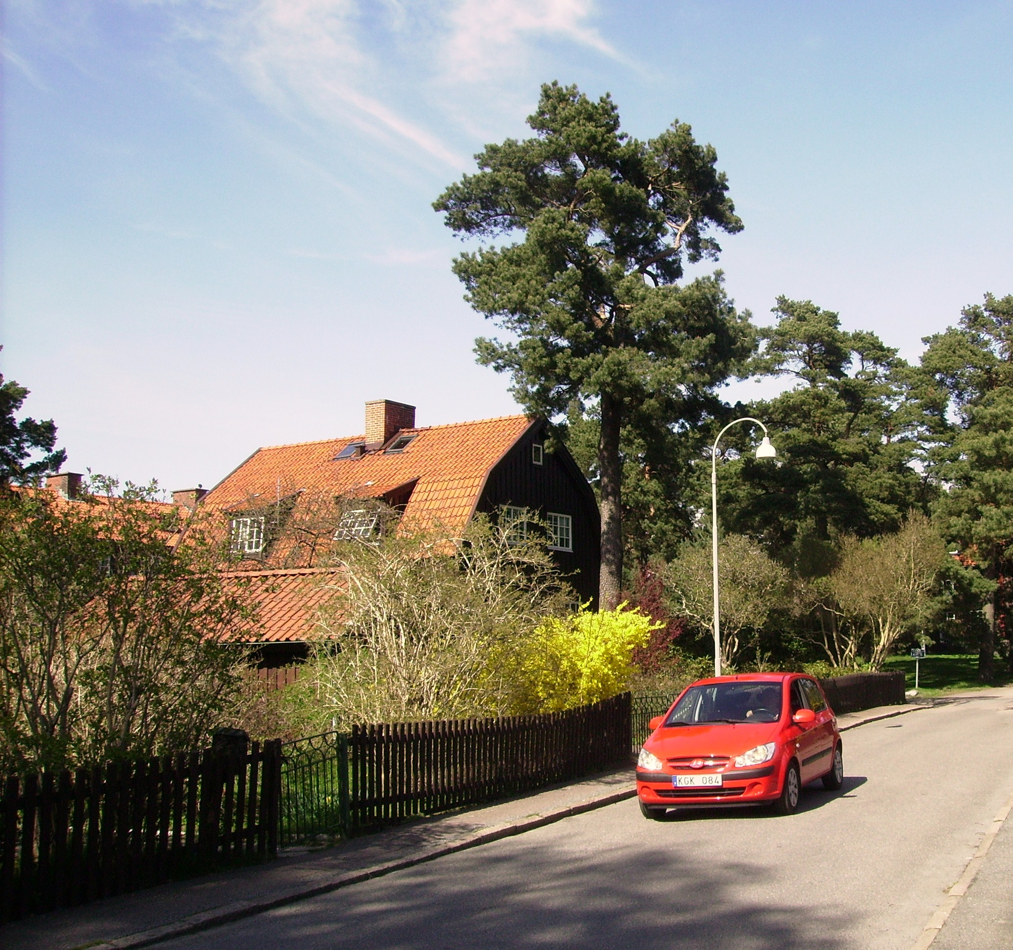 Picture of Syréngatan in Landala Egnahem, Göteborg